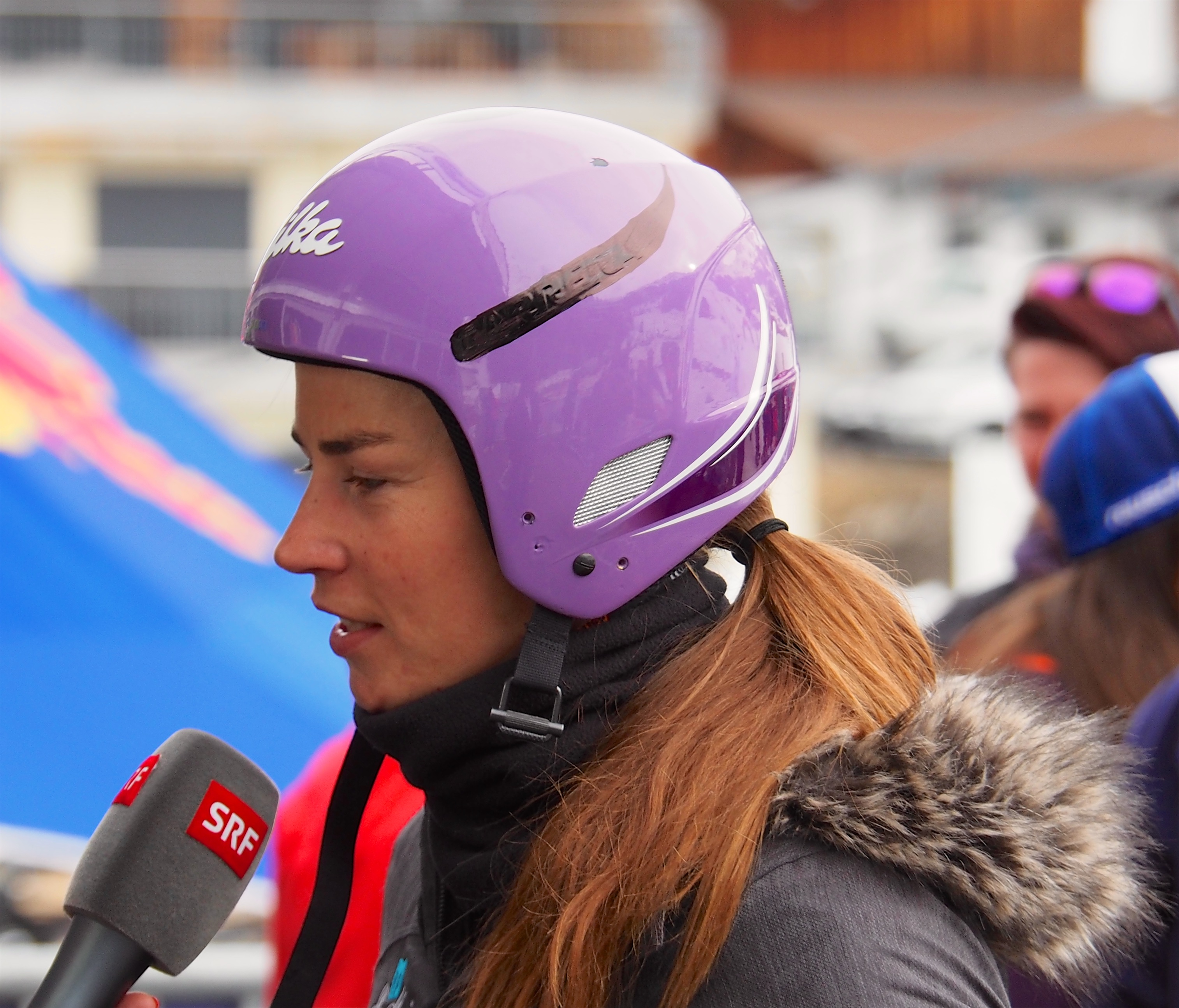 Alpine Skier Tina Maze in Switzerland, spring 2016